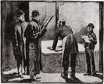 Illustration of the Sherlock Holmes short story The Blue Carbuncle, which appeared in The Strand Magazine in January, 1892. Original caption was "JUST READ IT OUT TO ME."